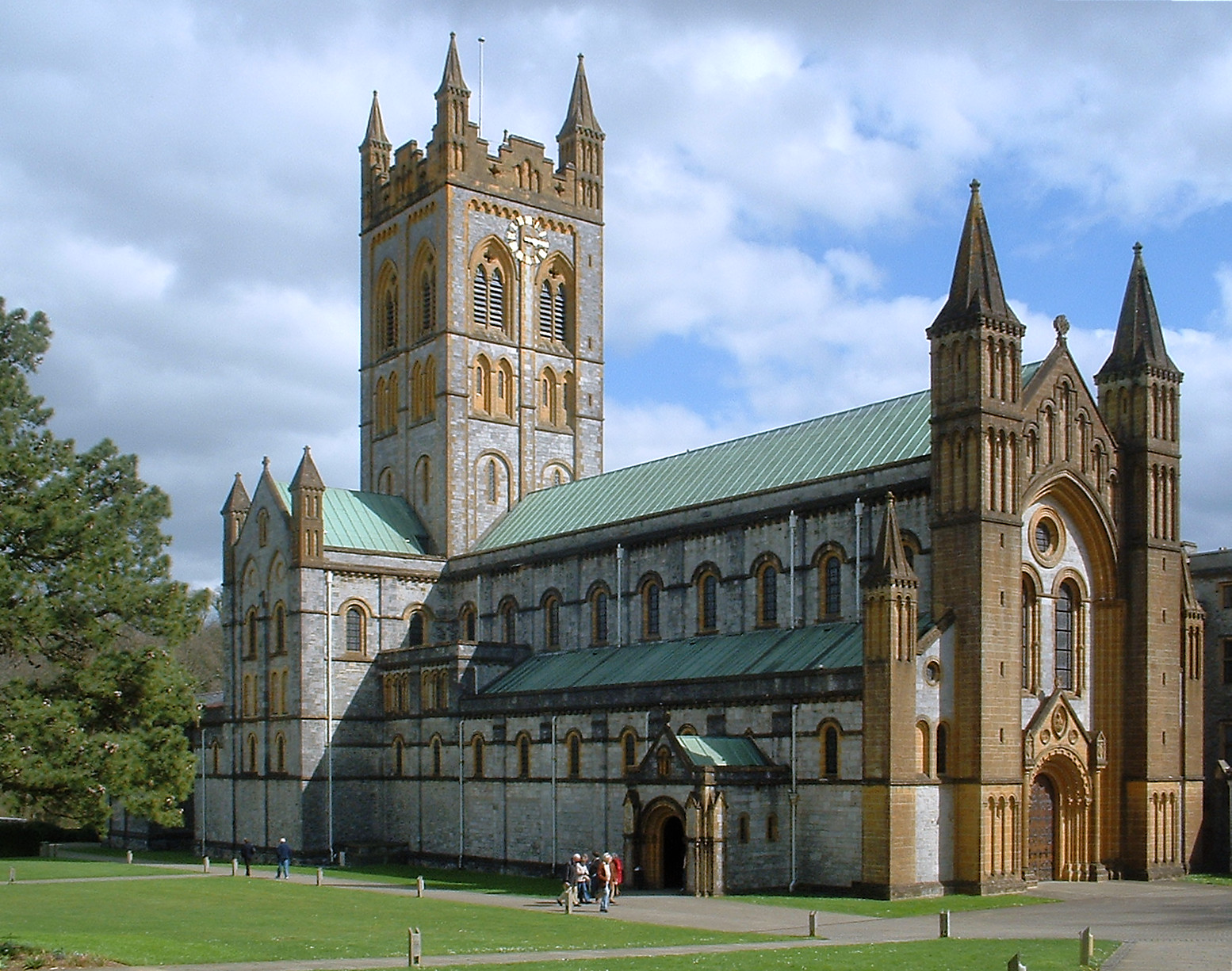 Church of St Mary (buckfast Abbey)